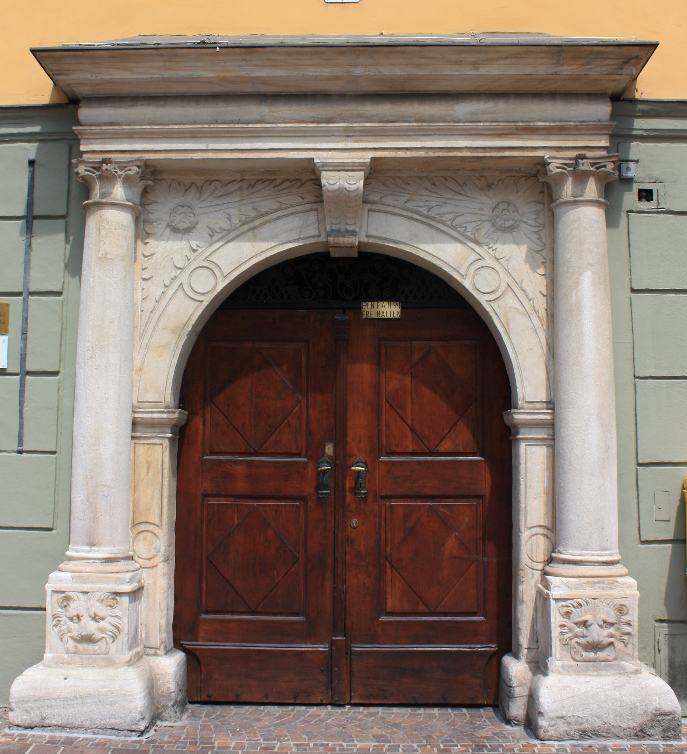 Portal of the old city hall Locality: Alter Platz 1 Community:Klagenfurt